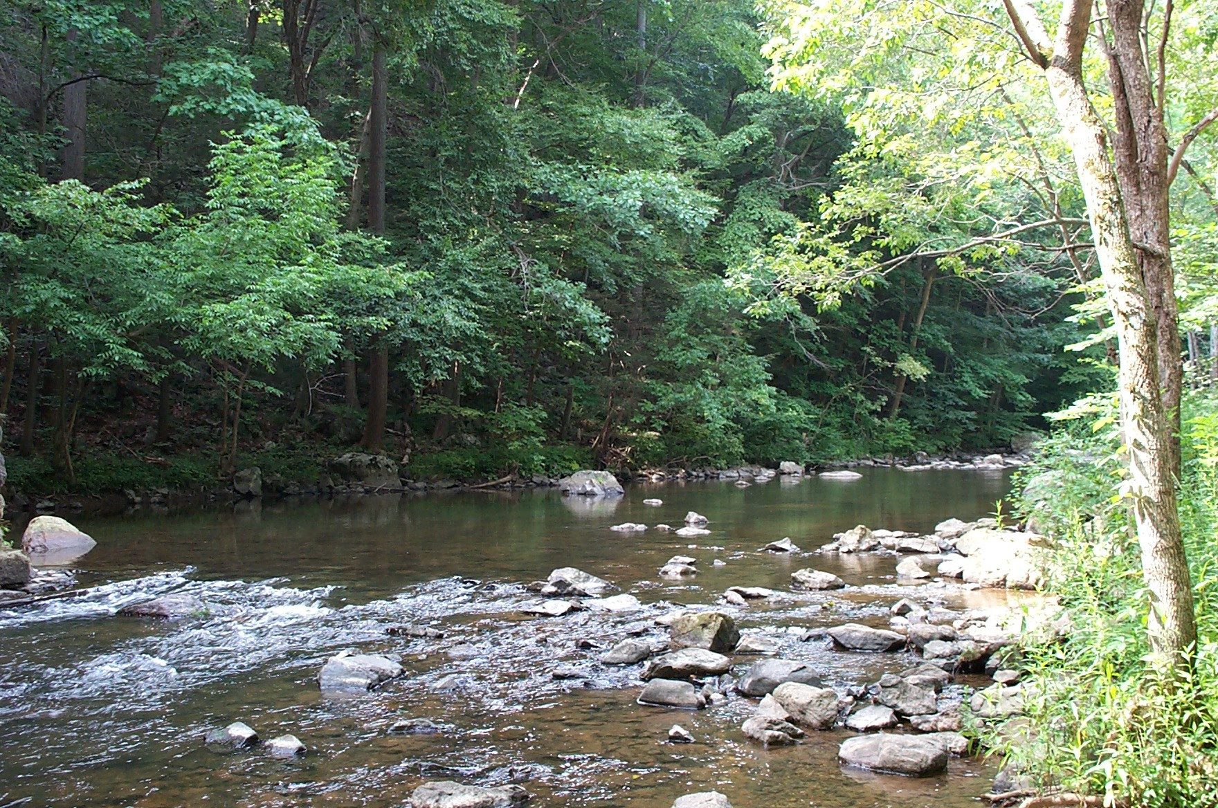 Ken Lockwood Gorge in August